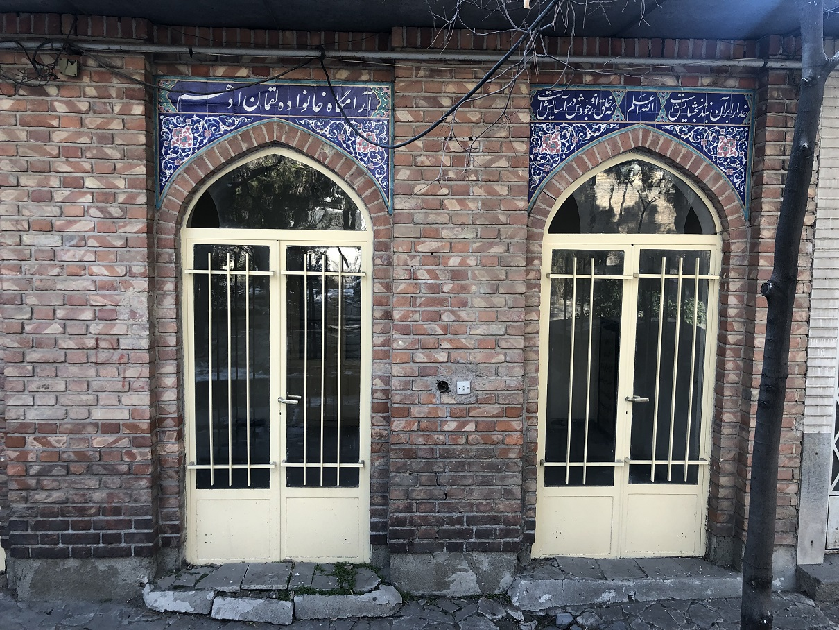 Zahir-od-Dowleh Cemetery